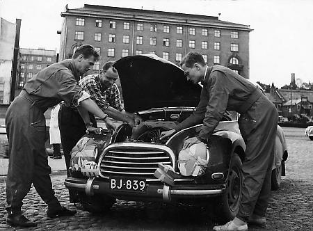 Rally leader (and eventual winner) Osmo Kalpala, his co-driver Eino Kalpala and Stig Sjöblom servicing their DKW Donau during the 6th Jyväskylän Suurajot (Rally Finland) in 1956.